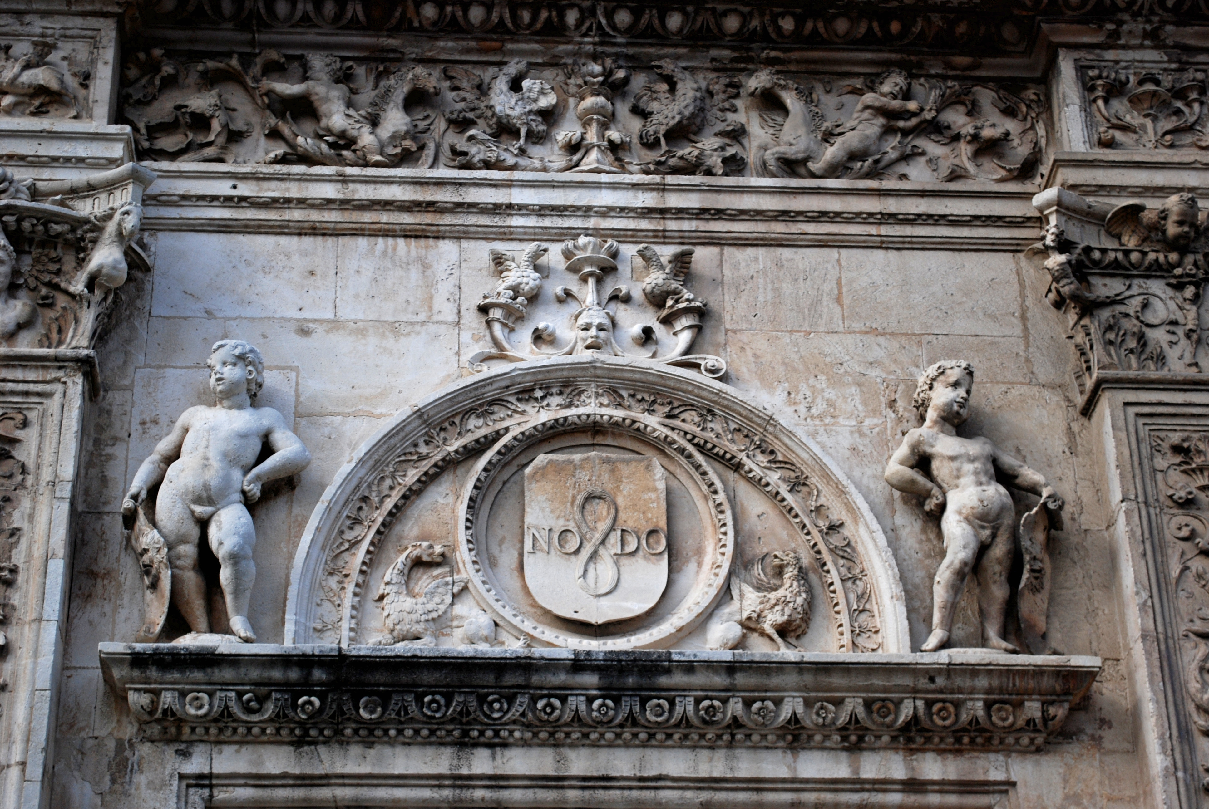 Town hall of Seville, detail